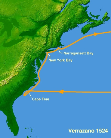 Approximate route of the voyage of Giovanni da Verrazano in North America in 1524.